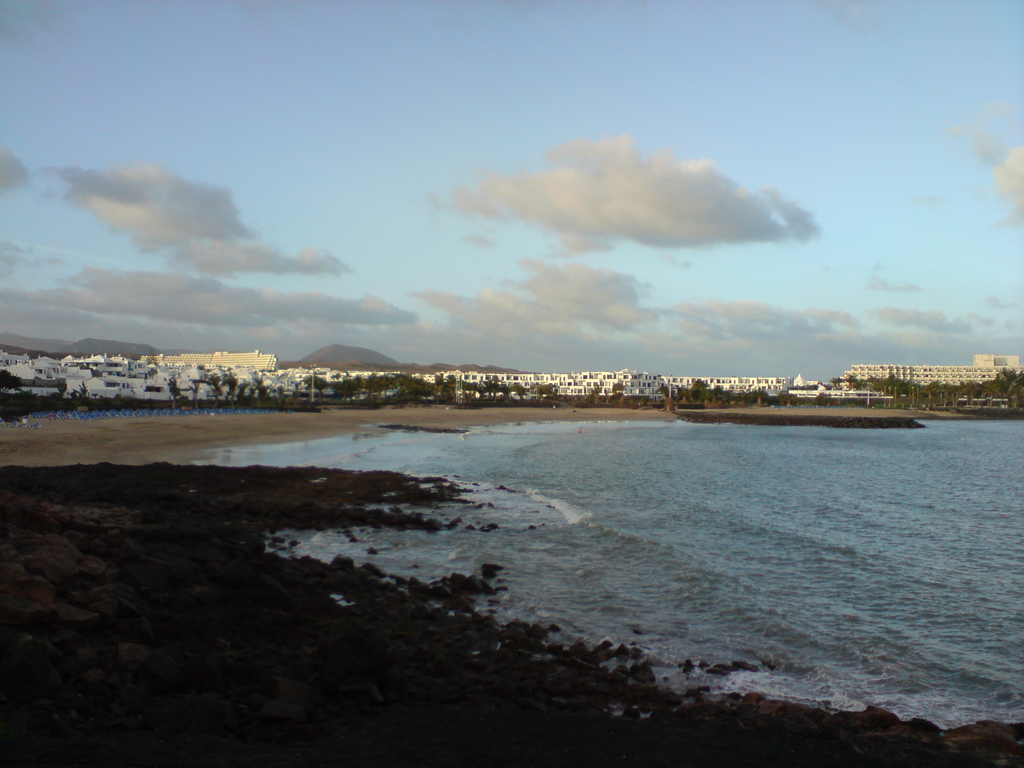 View of Playa de las Cucharas in Costa Teguise with Hotel Gran Meliá Salinas on the right and Hotel Beatriz on the left in the background.